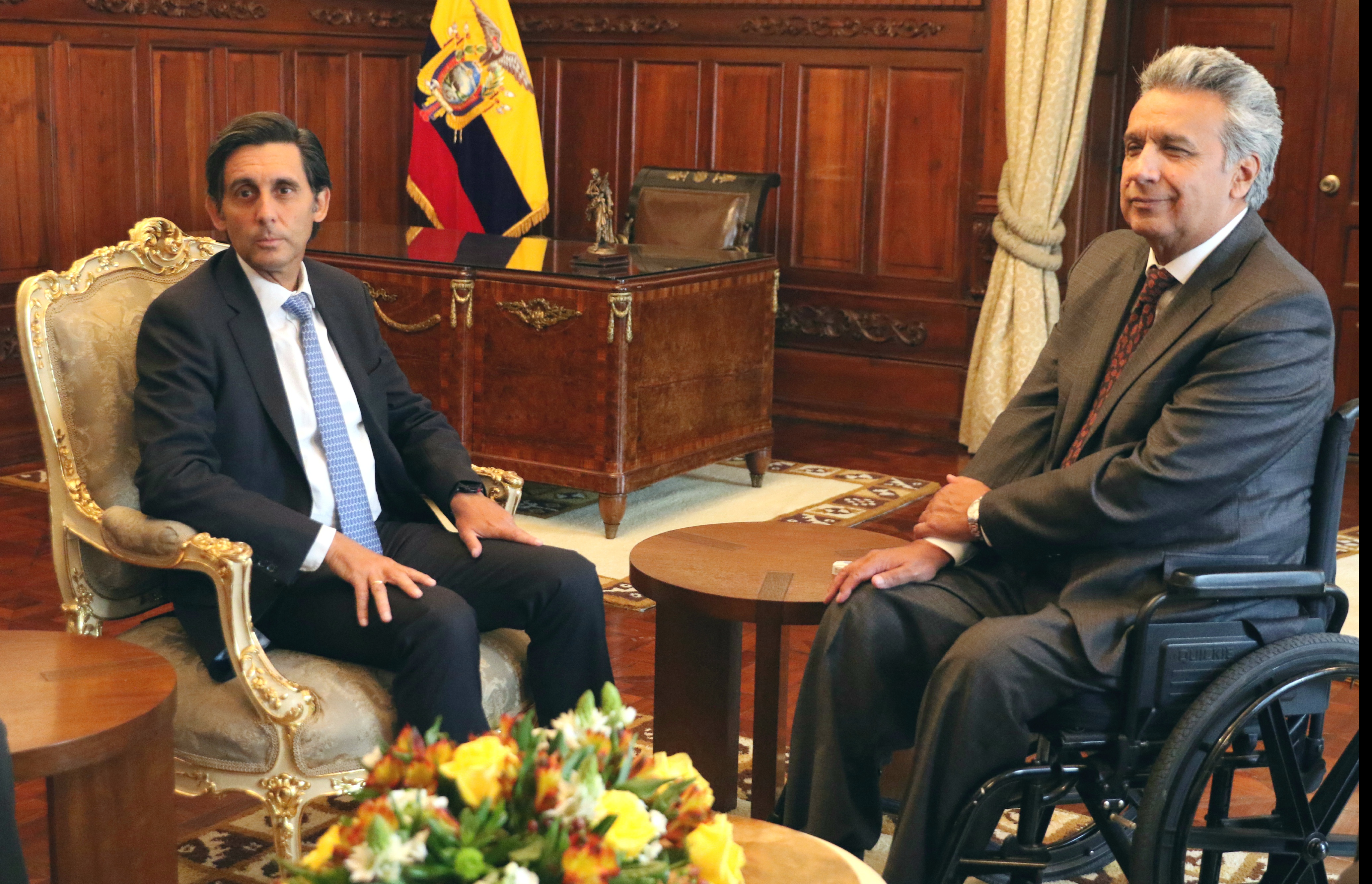 Quito, 23 de Agosto de 2017 (Andes).- El presidente de la República Lenín Moreno recibió en su despacho al Presidente Ejecutivo de Telefónica María Alvarez-Pallete (i.). ANDES/Micaela Ayala V.